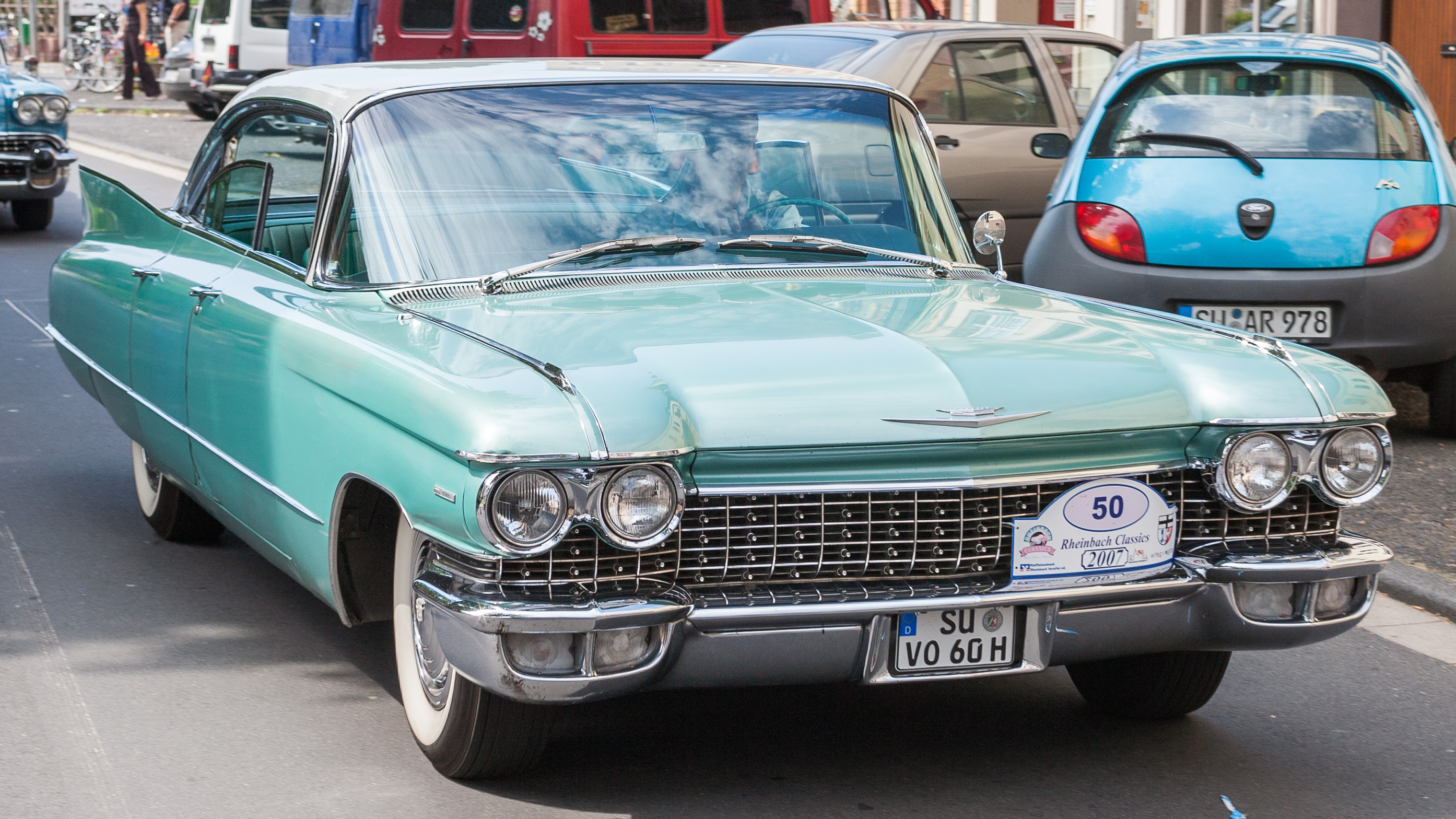 1960 Cadillac Coupe de Ville